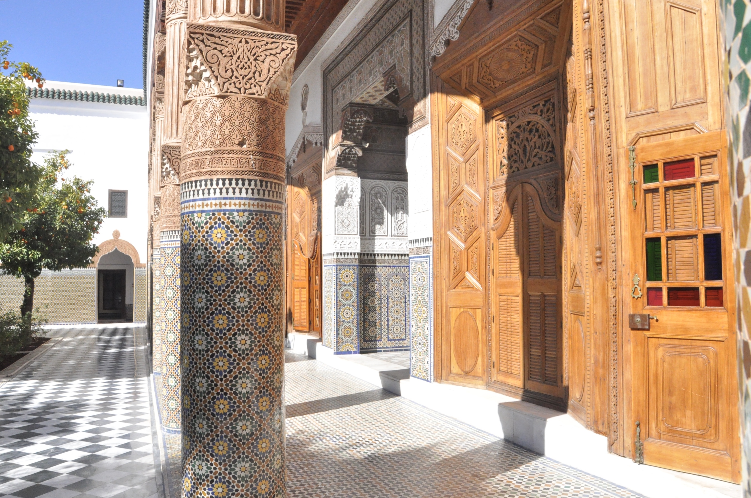 The courtyard of Dar el Bacha palace